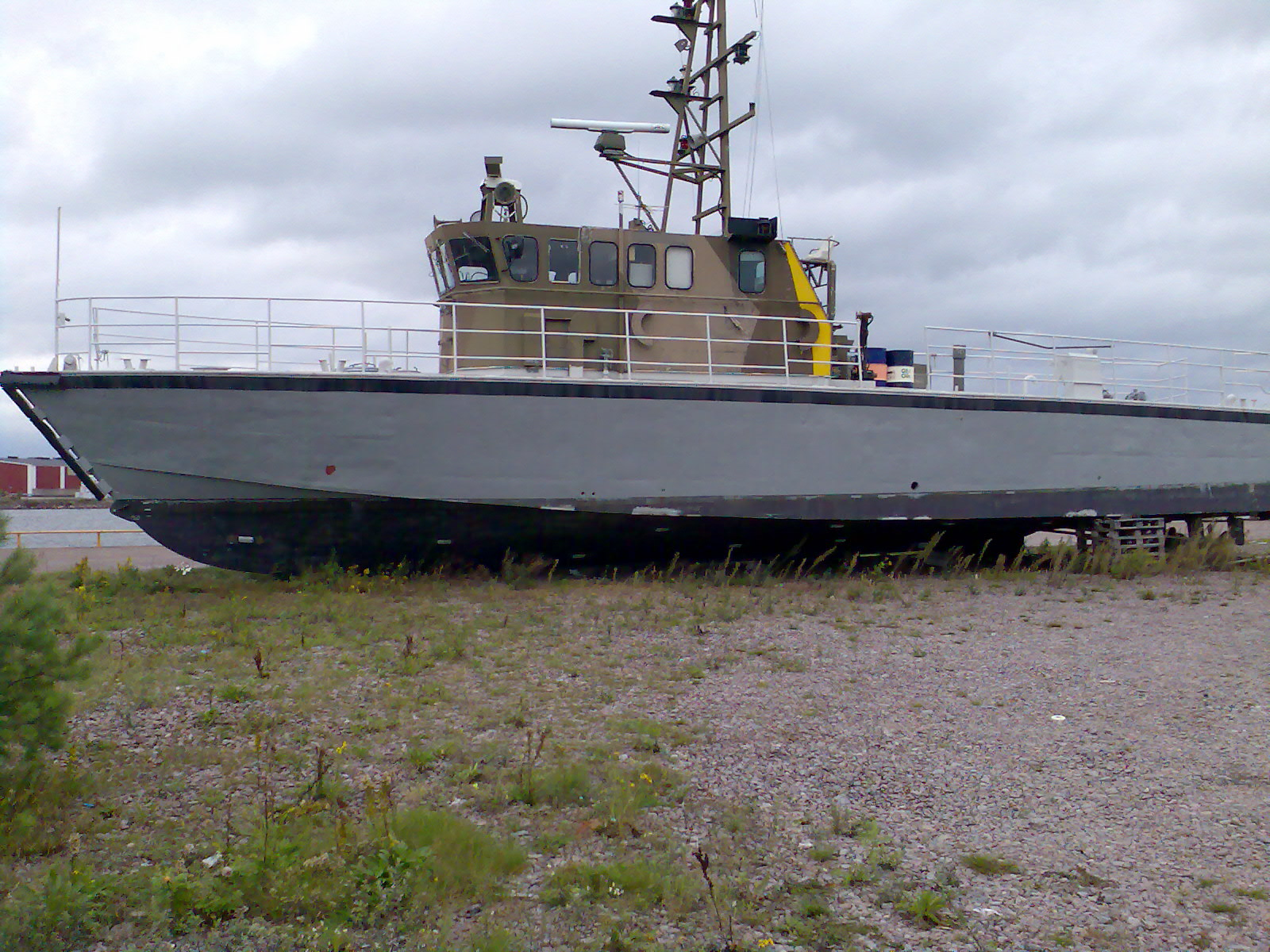 Ex Navyship